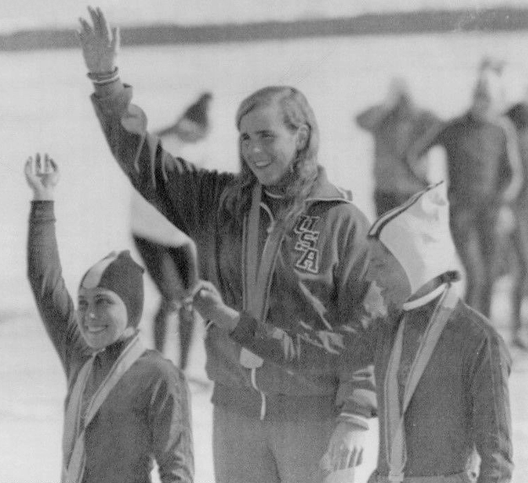 LG30 1972 Wire Photo VERA KRASNOVA ANNE HENNING LUDMILLA TITOVA Olympic Skaters